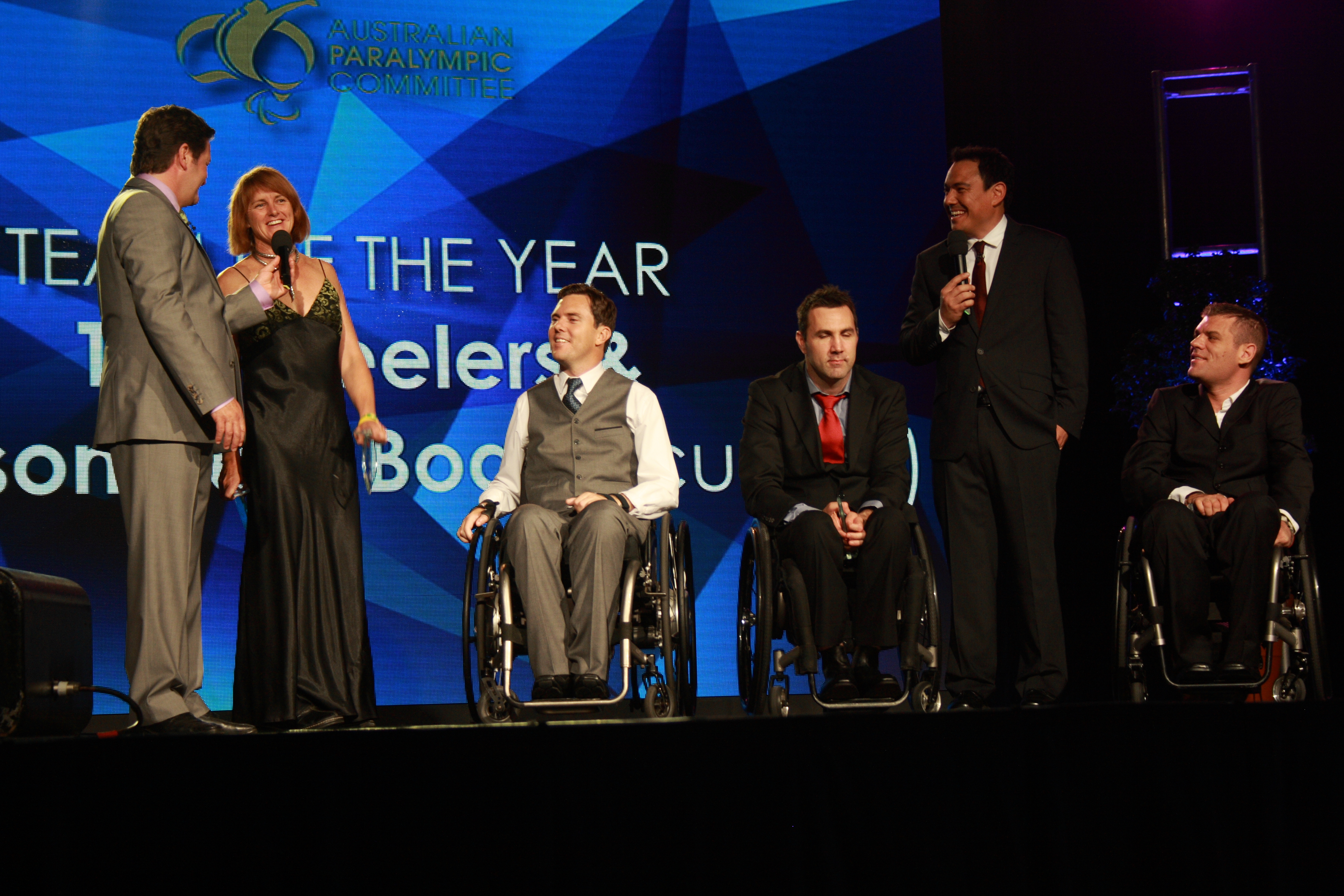 Australian Paralympian of the Year 2012 ceremony at the Hordern Pavilion, Sydney, Australia.